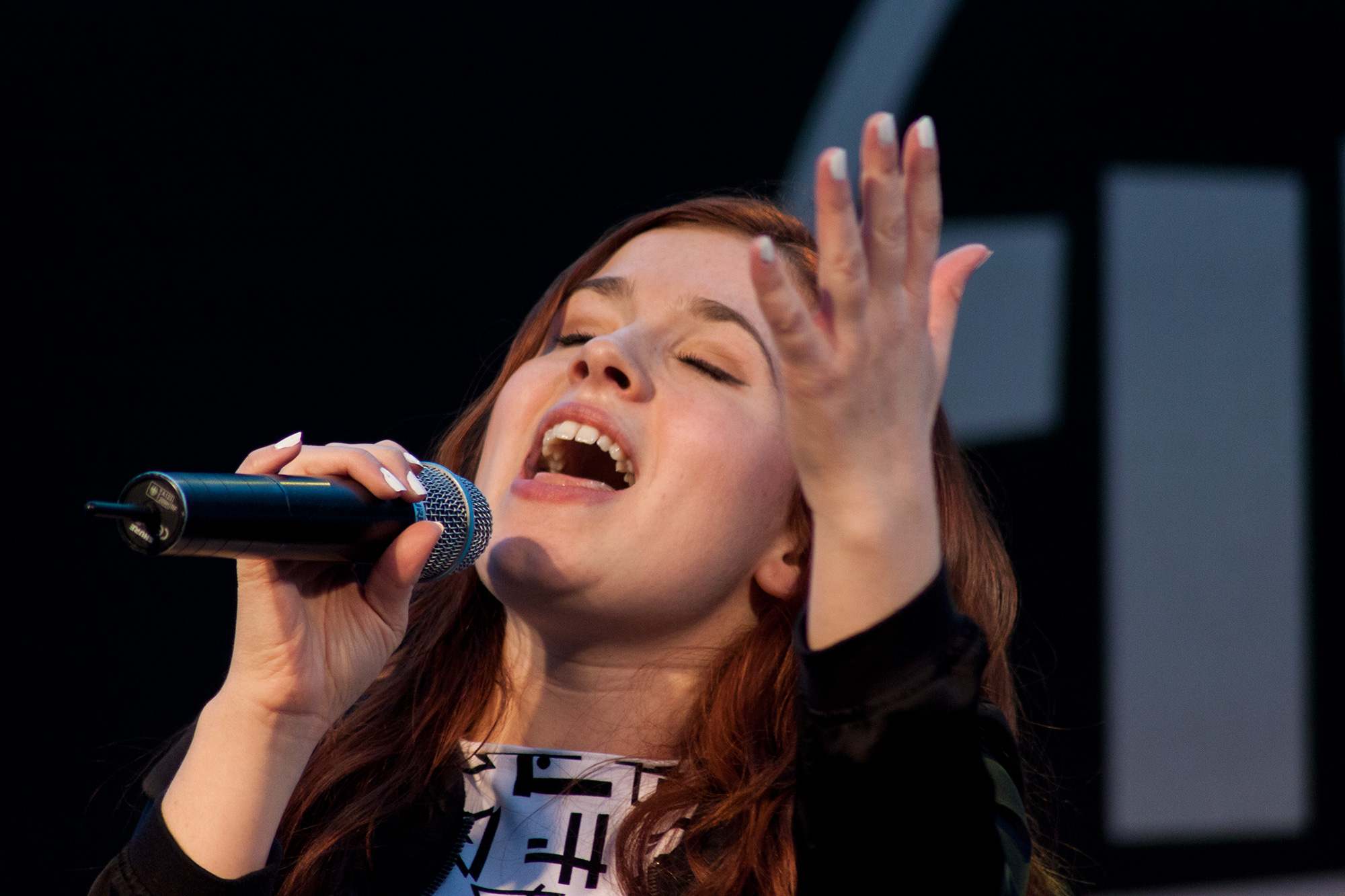 Amy singing in Uddevalla